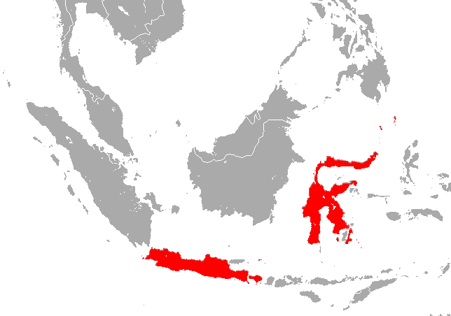 Sulawesi Horseshoe Bat (Rhinolophus celebensis) range